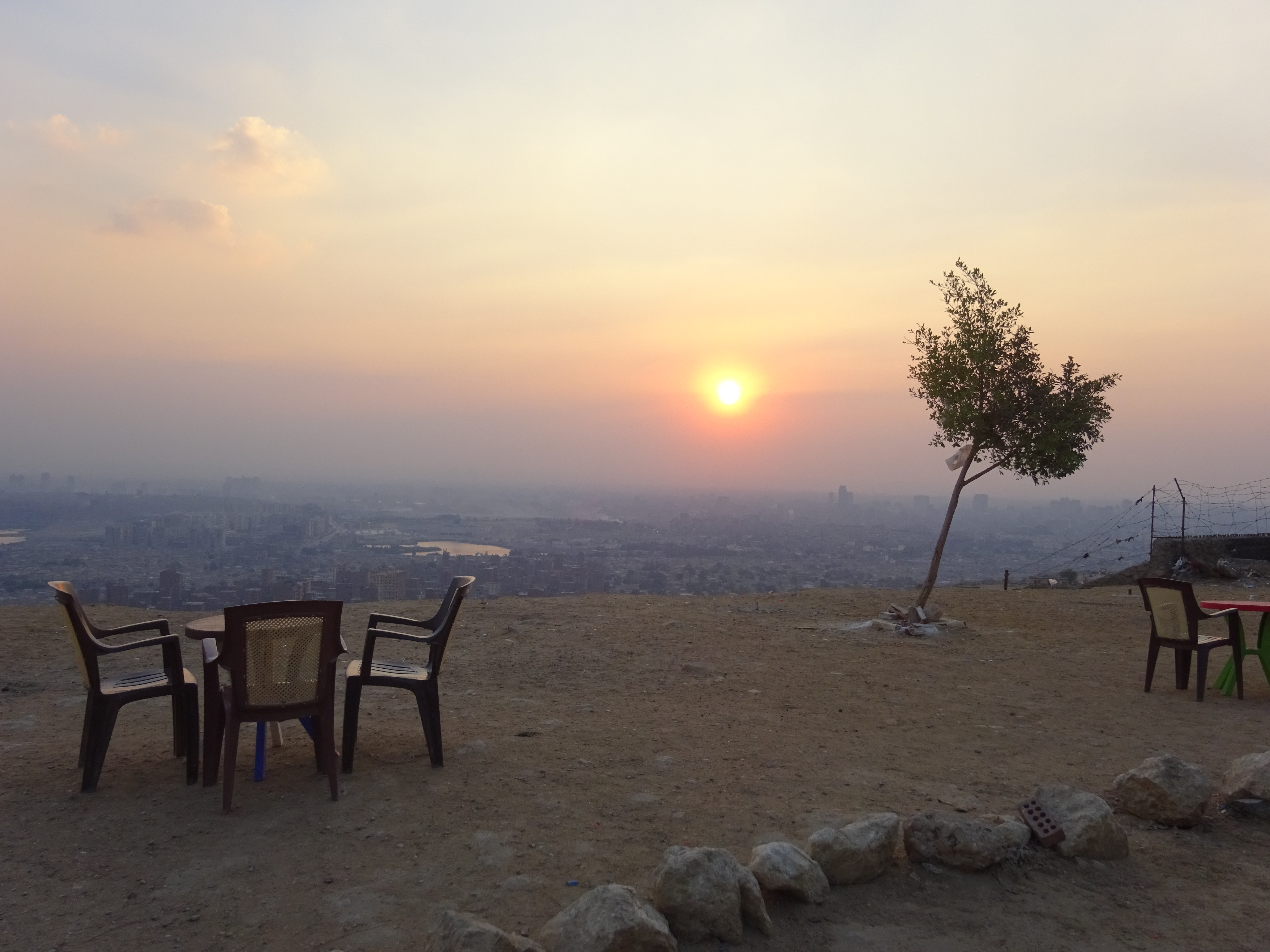 Sunset from the corniche in Mokattam (Cairo)